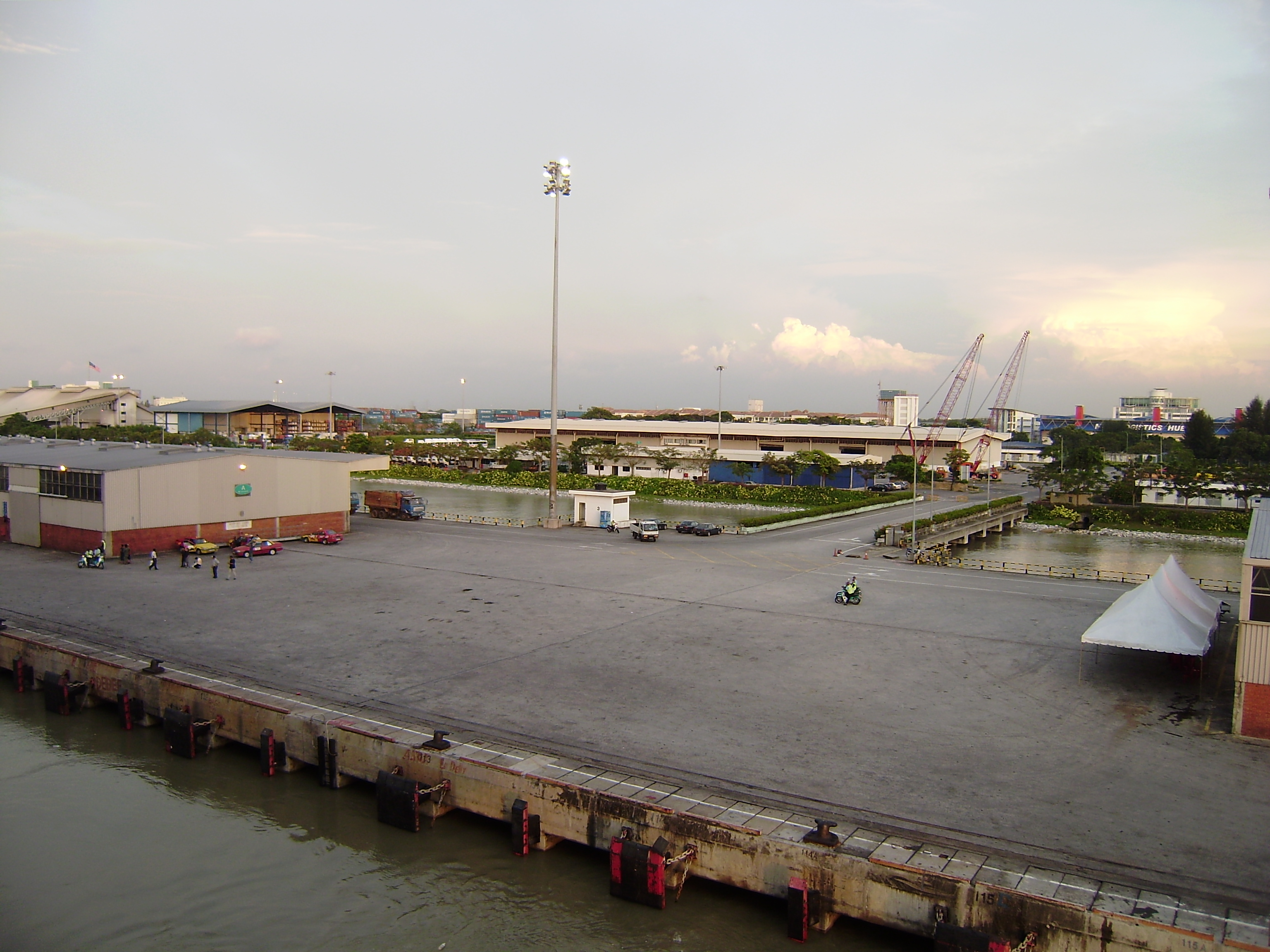 West Port, Malaysia